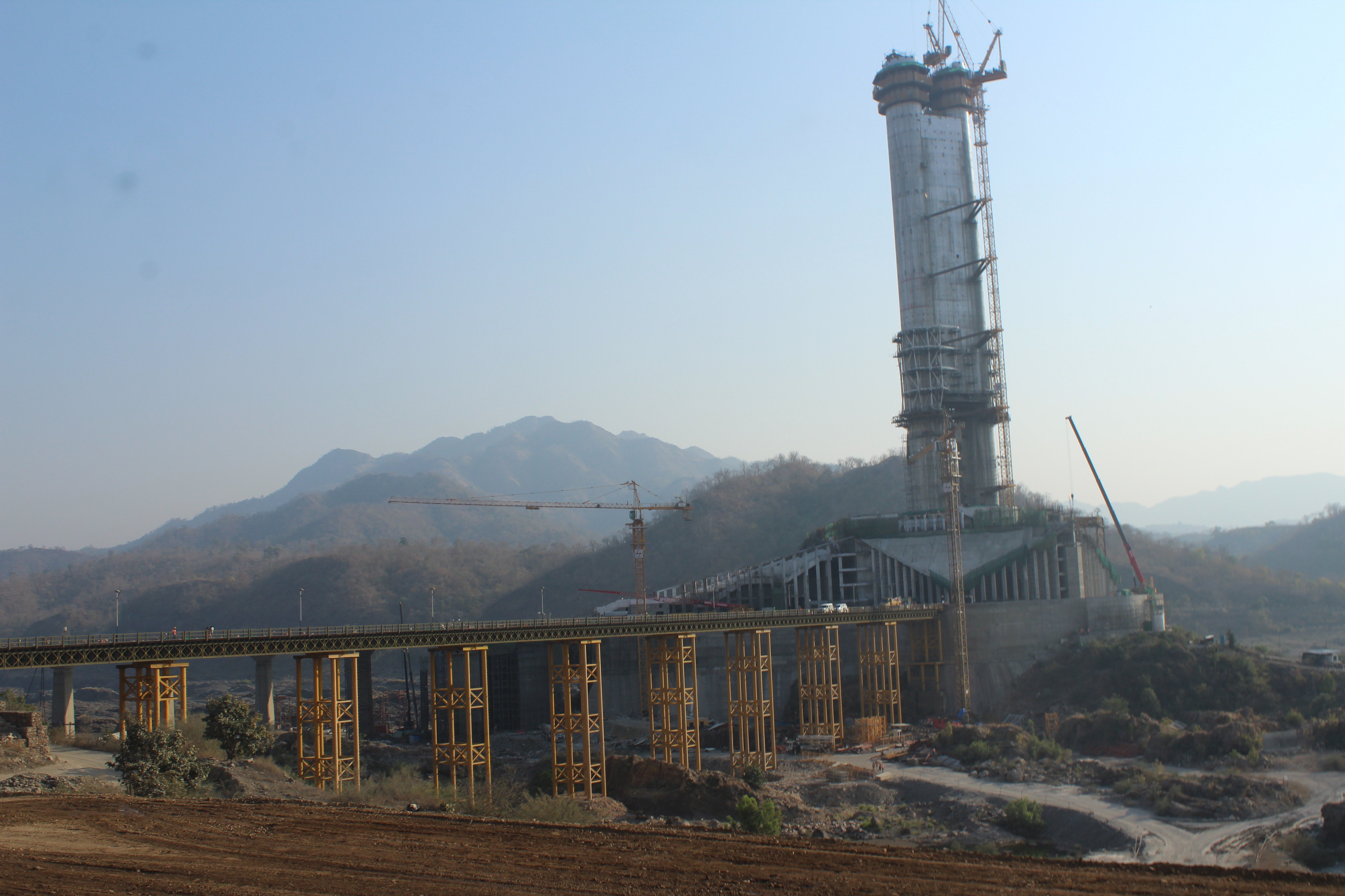 Statue of Unity work under construction at narmada